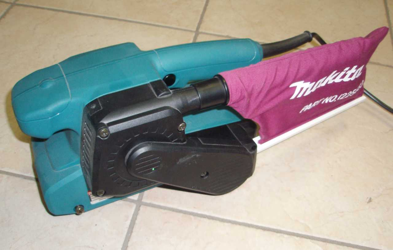 Belt sander Makita Belt Sander 9911